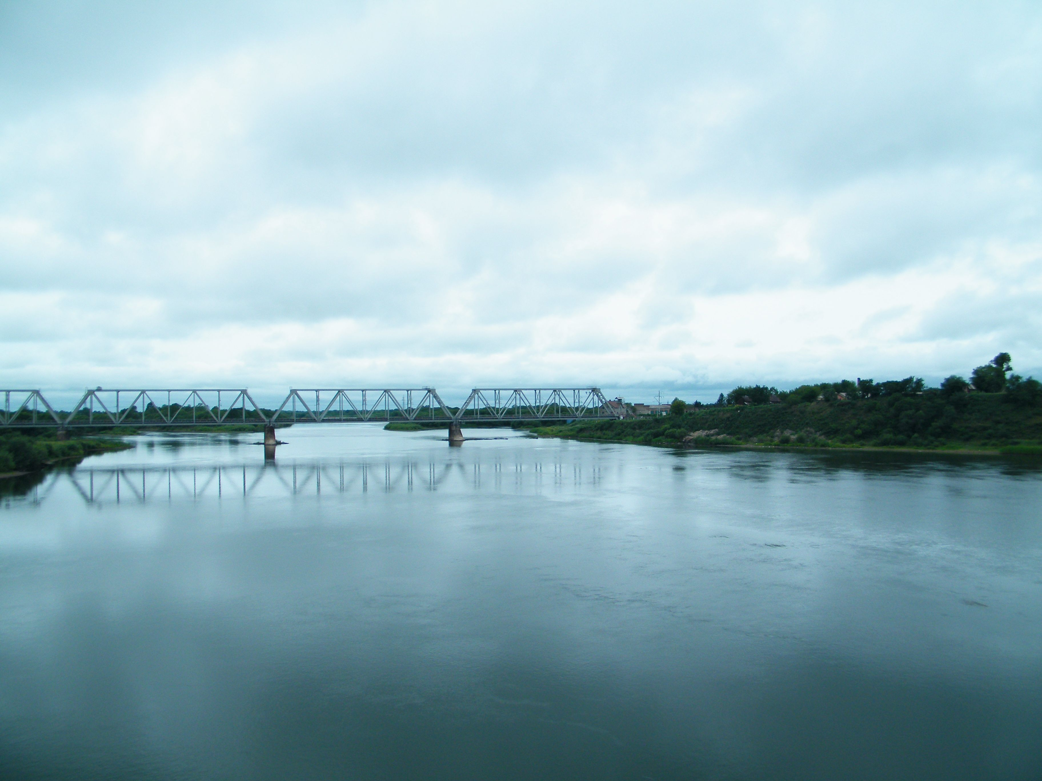 Река Уссури, Лесозаводск